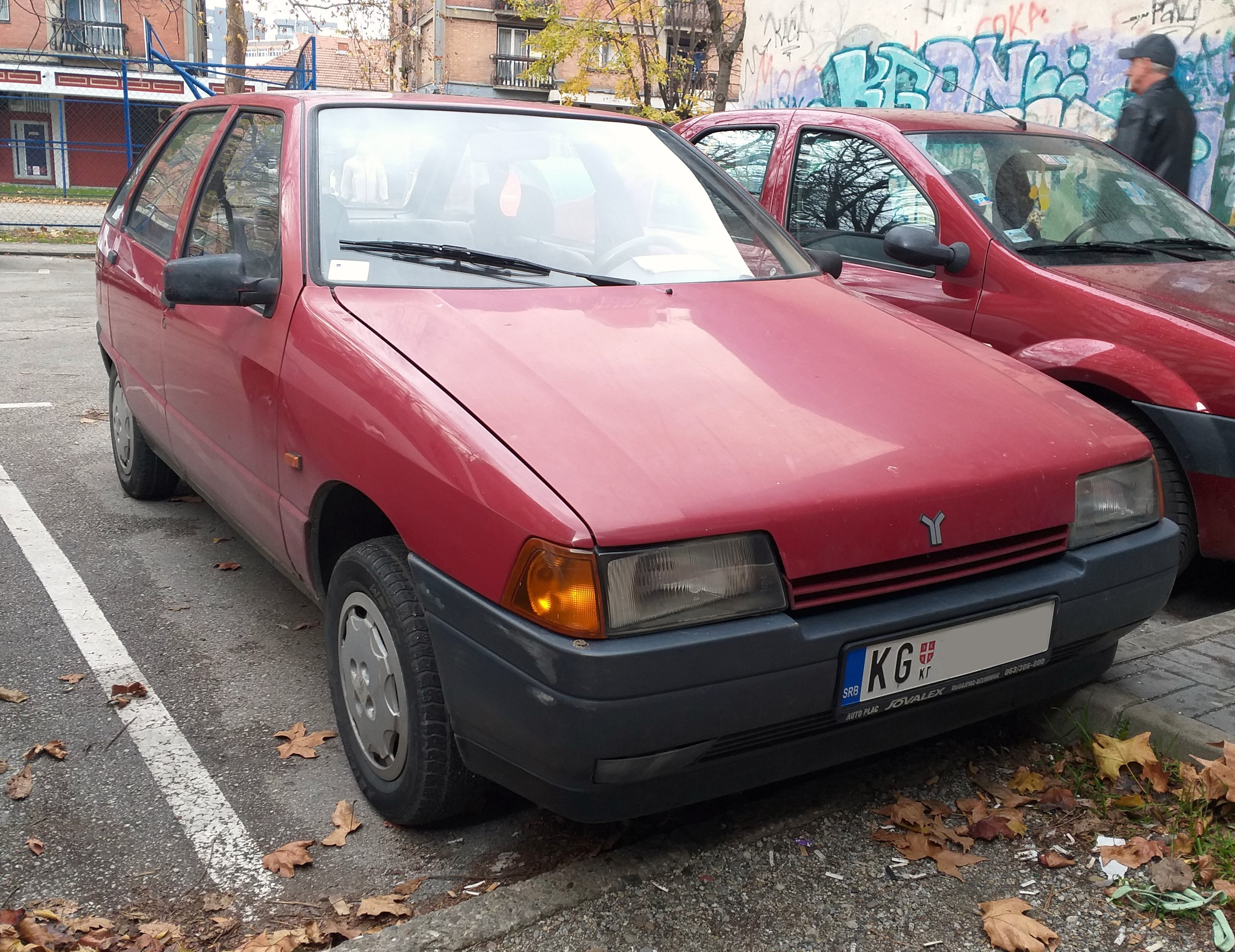 1.4 71 HP